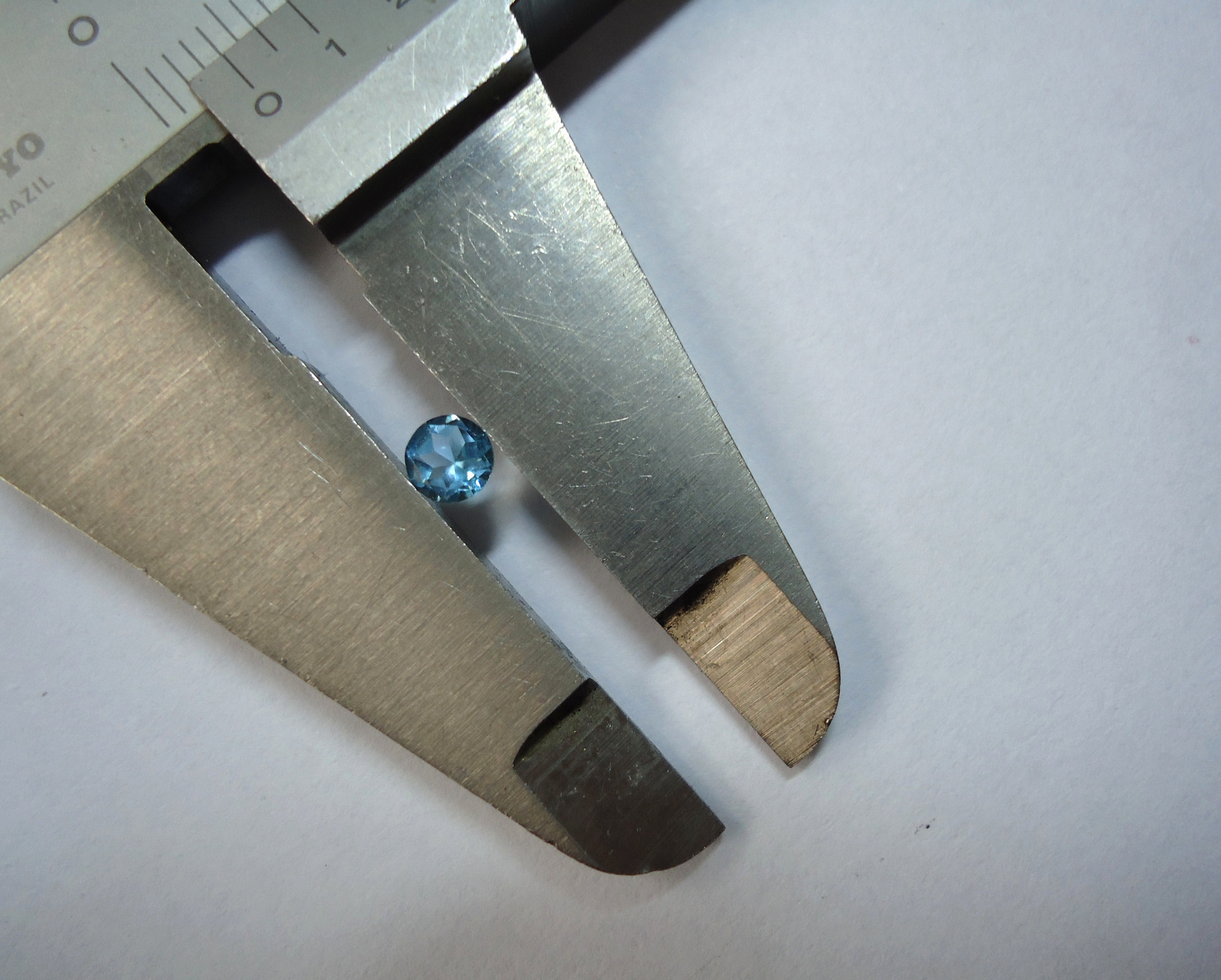 Measuring a brilliant-cut blue topaz (diameter: 4.0 mm). Photo: Mauro Cateb, Brazilian jeweler and silversmith.